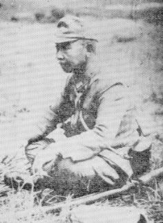 Imperial Japanese Army Major General Toshinari (also known as Toshishige) Shoji, a commander during the Pacific War in World War II